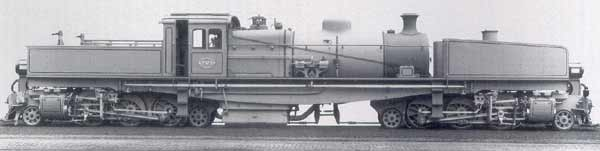 South African Railways FD class Modified Fairlie Although the Modified Fairlie looks like a Garratt on the first view, it is different. It has a large bridge frame, which carries coal and water supplies, cab and boiler, with two articulated driving bogies below. So it is more a development of the Kitson-Meyer than of the Garratt or the Fairlie. (